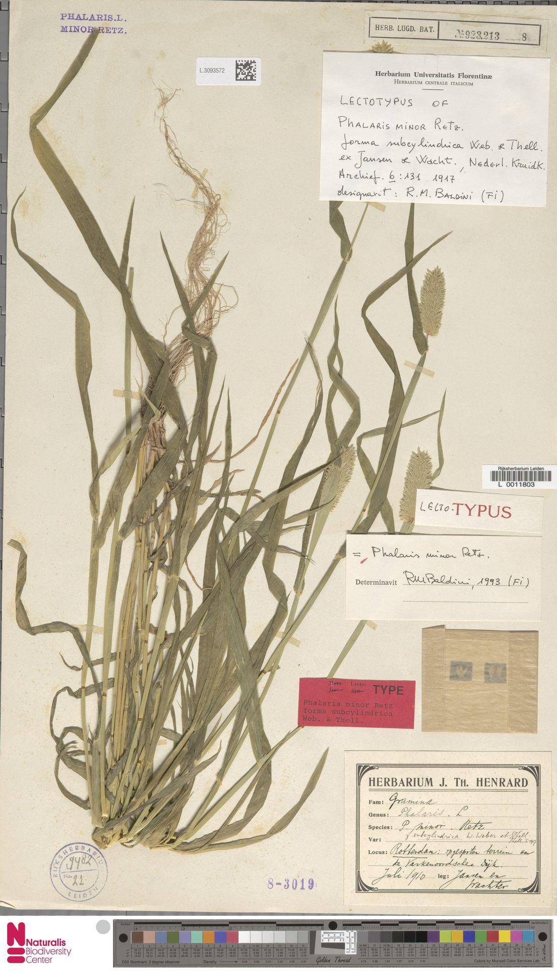 Phalaris minor Retz. f. subcylindrica Webb and Thell. (type of) - Phalaris minor Retz. (species)